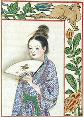 Boxer Codex Manuscript Ladrones (pack of thieves), Philippines, part of the Indiana University Digital Library